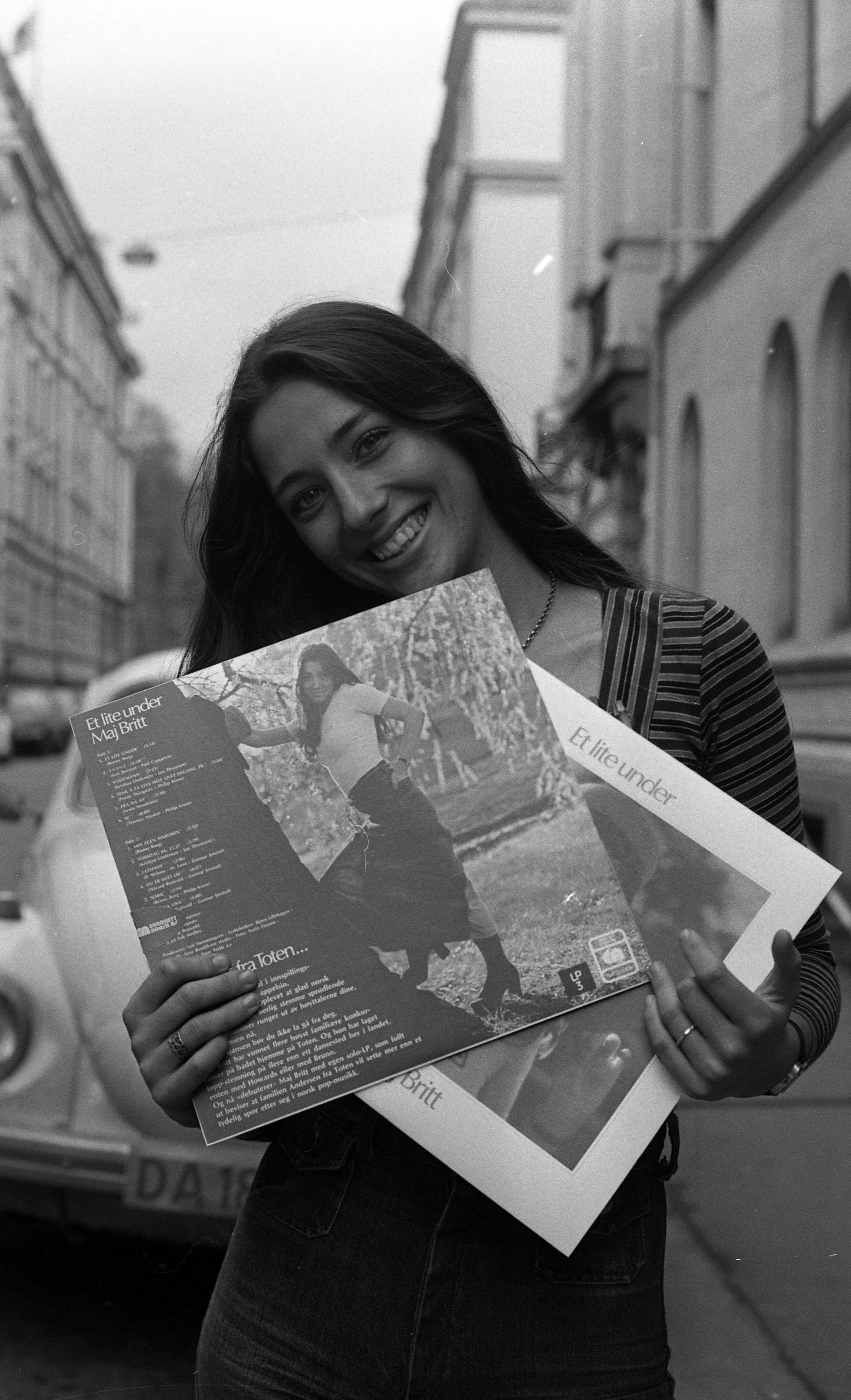 Med plate, 1975. Foto: Arne Wisth. Arkivref.: PA-0797_U_8280_002_017